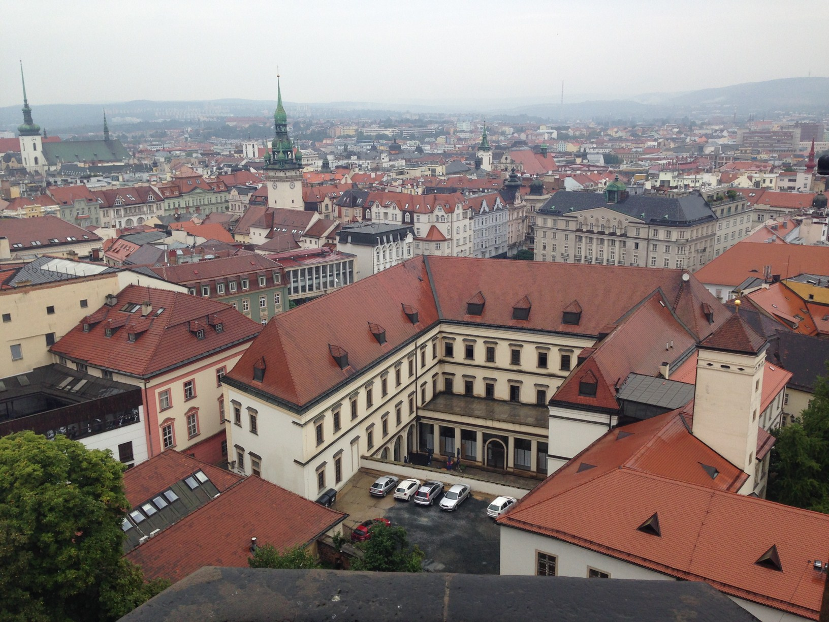 Brno, Czech Republic